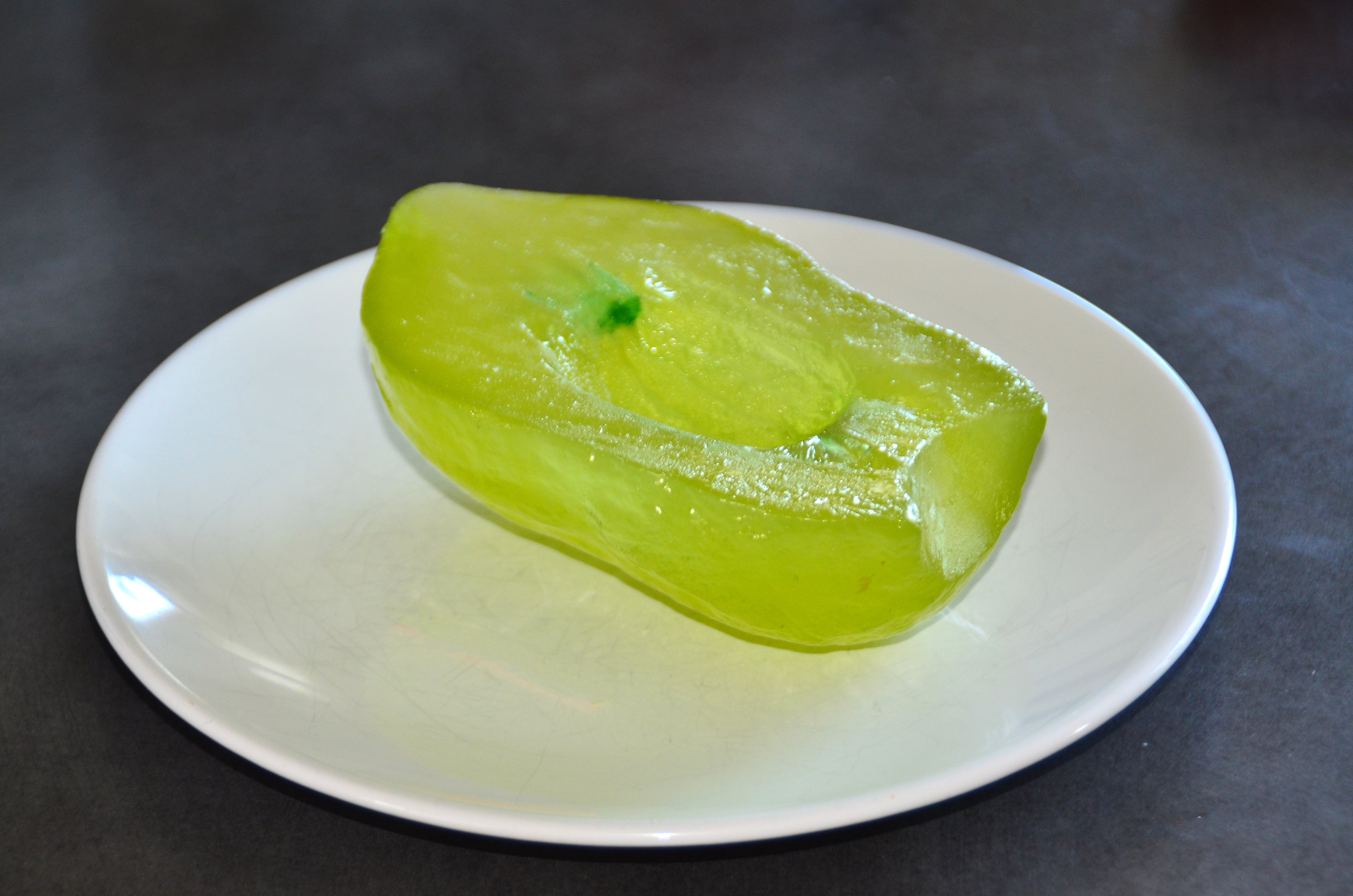 Half of a candied peel of a citrus medica